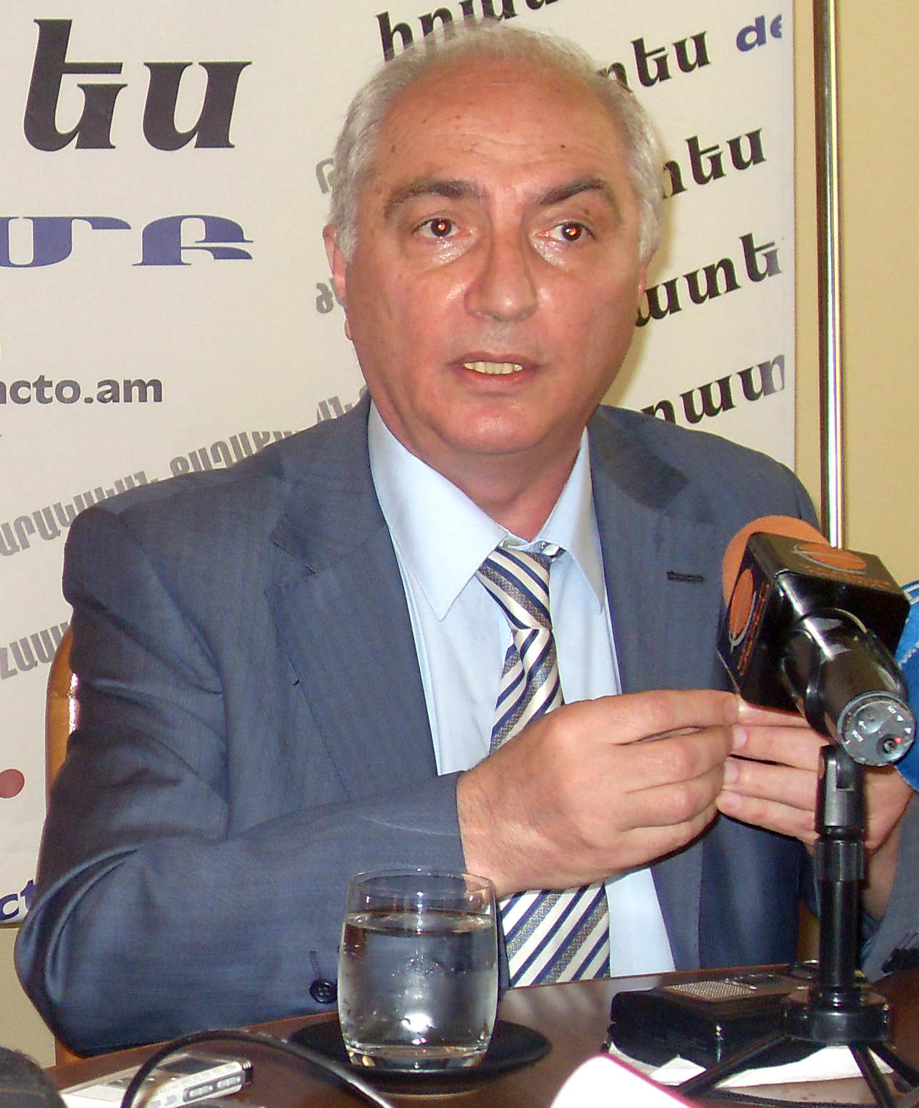 Aram G. Sargsyan, is an Armenian politician, a communist and social-democrat activist.